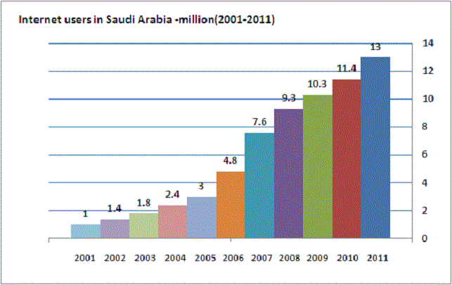 the growth of the number of internet users in saudi arabia.